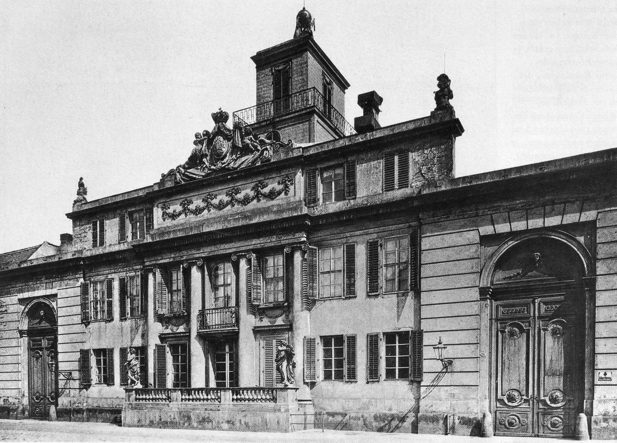 Dresden Prinz-Max-Palais Ostra-Allee 22. Aufnahme um 1890